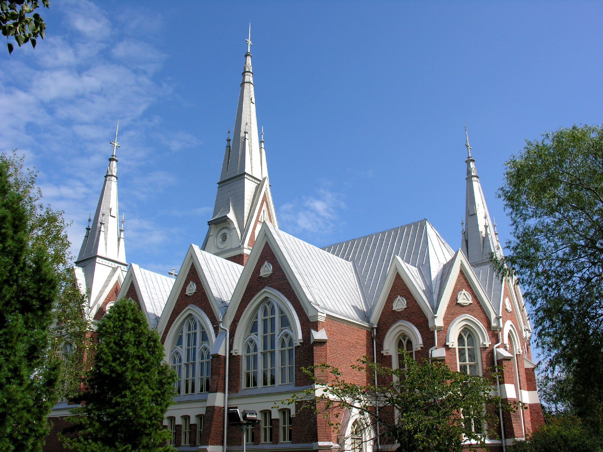 Evangelical-Lutheran church of Joensuu, Finland